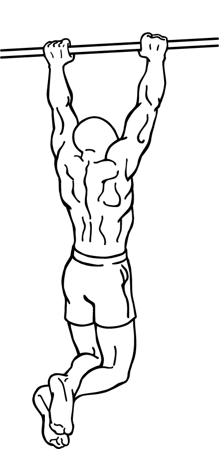 an exercise of upper back